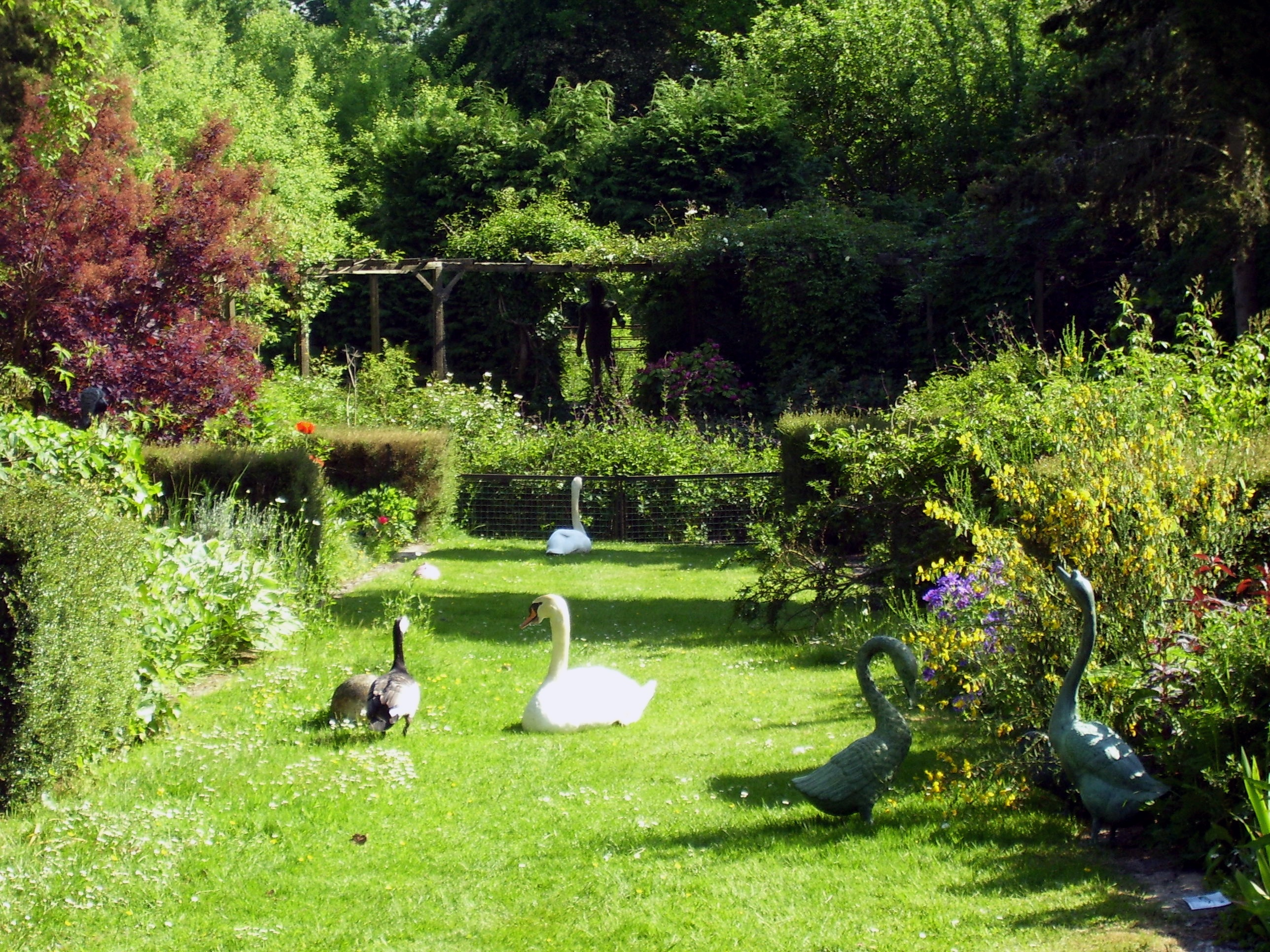 Real swans and swan statues in the gardens of the Clos Saint-François in Saint-Victor-d'Épine in the département Eure in France.